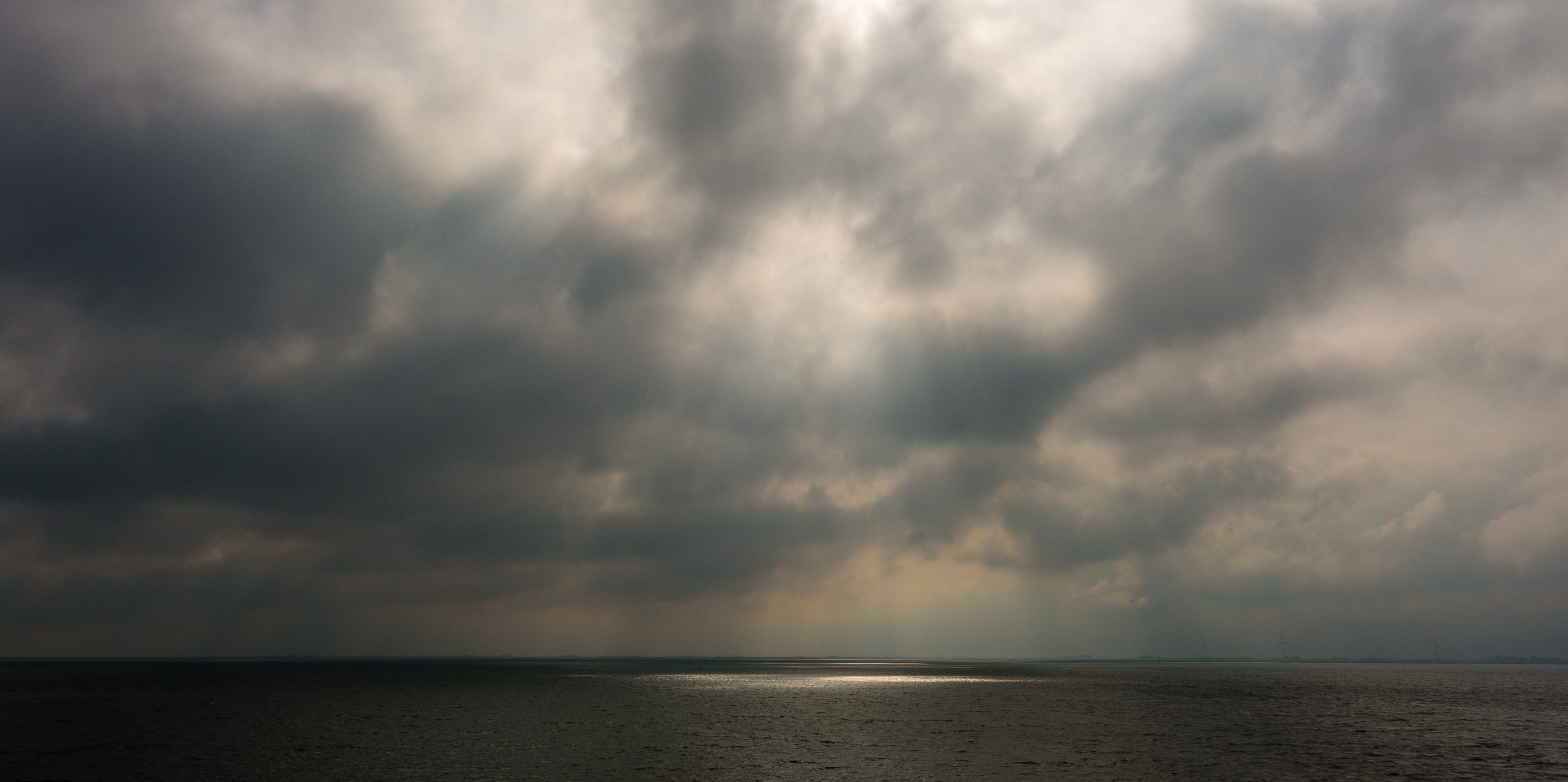 This is a picture of the protected area listed at WDPA under the ID 555537239 Title: Lighting mood in the Wadden Sea between Wyk and Dagebüll Designation: Schleswig-Holstein Wadden Sea and adjacent coastal areas Kind: Nature park Area: Proposed Sites of Community Interest Number: DE-0916-391 Description: Epipelagic areas, Mudflat and coastal zone from the Danish border to the Elbe estuary. Wwithout the islands as well as the great Halligen Langneß, Gröde and Nordstrandischmoor. Included are various coastlines and koogs (groden) bordering the national park. Place: Municipality Utersum, Collective municipality Föhr-Amrum, District Nordfriesland, Schleswig-Holstein, Germany Location: Weg an Wester Bergen